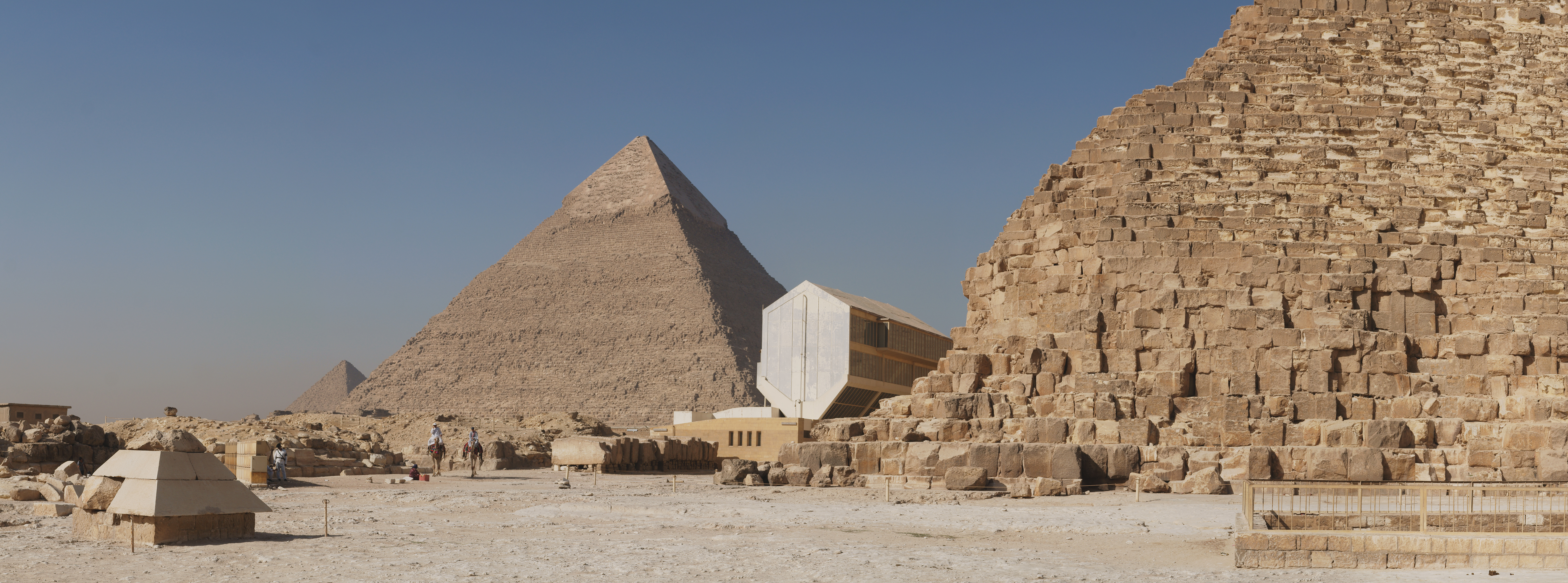 All pyramids of Giza and the boat shaped museum.